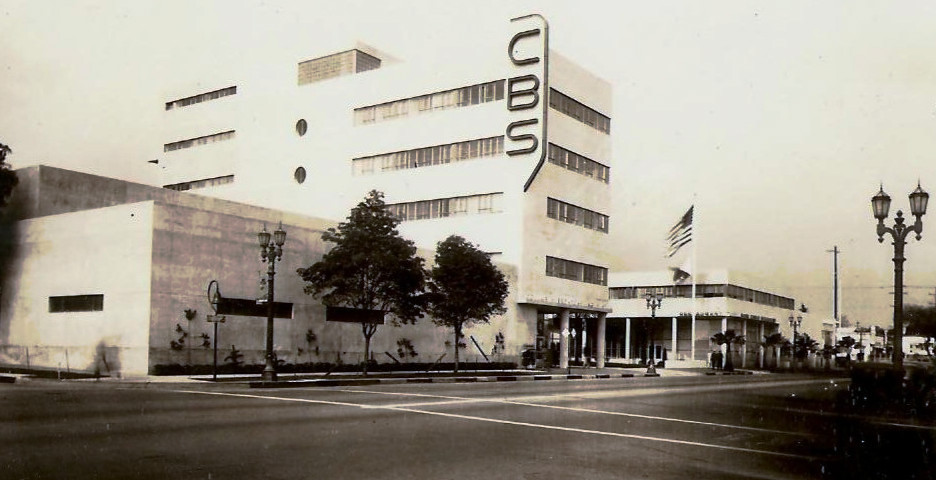 Postcard photo of CBS Hollywood. This postcard was produced prior to 1978 and has no copyright markings. From the surroundings such as street lights, the photo appears to be from the 1930s or 1940s. It is definitely pre-1978.